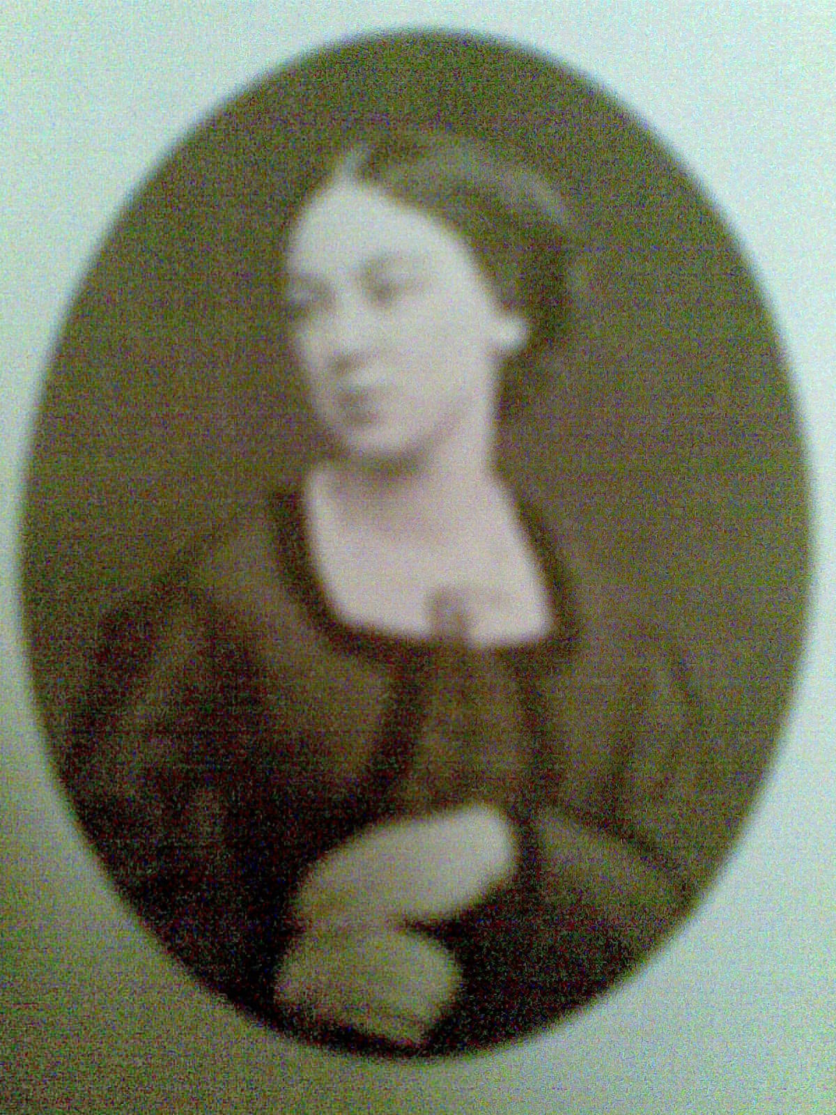 Picture of old photograph of Blanche Fox, wife of Howard Fox